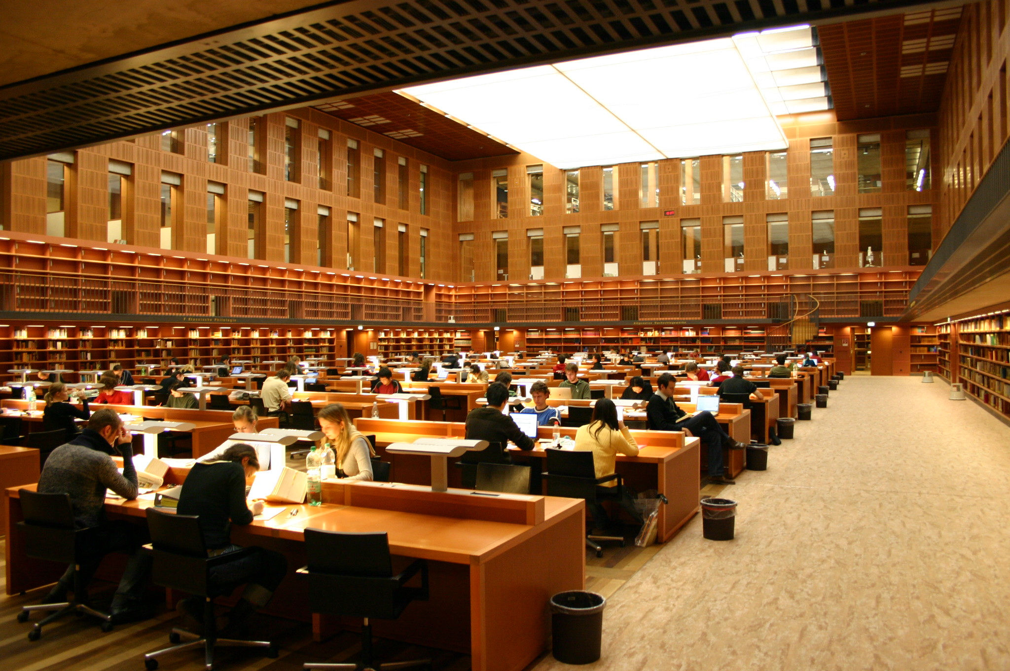 The Saxon State Library - Library of the State and the University (SLUB) Author: Stephan Herz (User:Stephan_Herz) Date: 2005-12-14 Notes:The reading room.